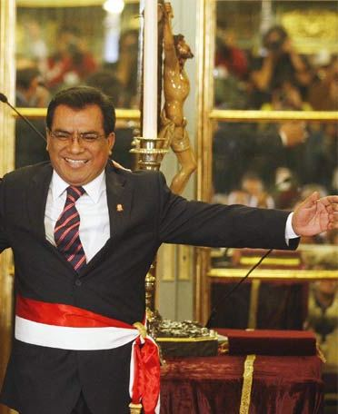 premier del peru